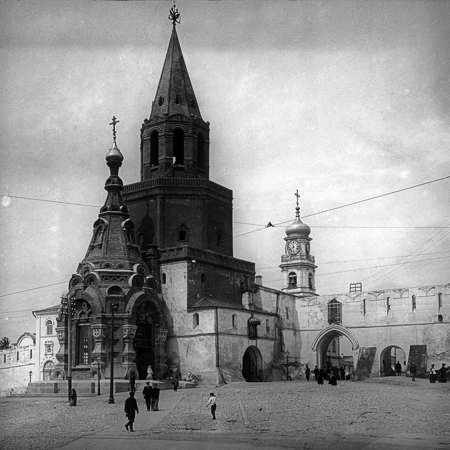 Christ the Saviour Tower in Kazan Kremlin, 1905—1918